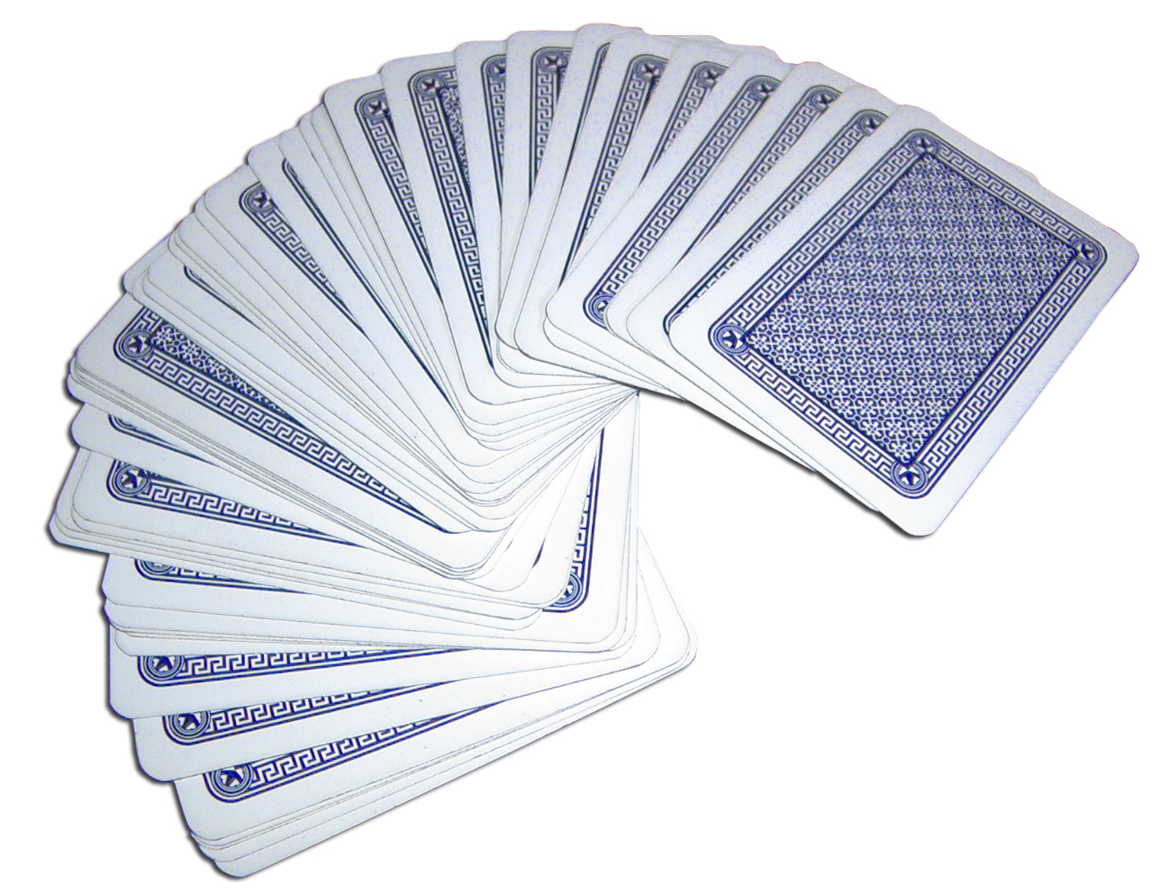 Playing cards